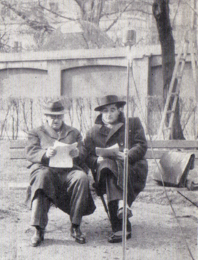 Aleksander Zelwerowicz and Jan Kreczmar at the Polish Radio